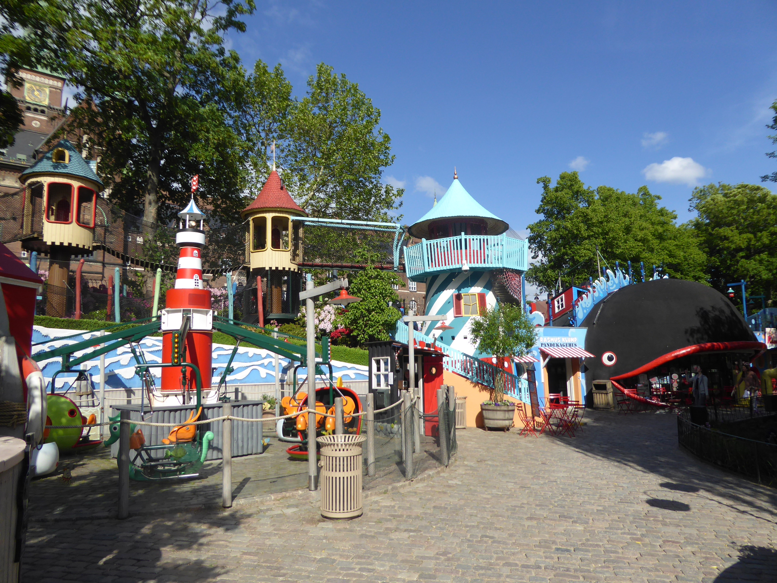 The area Rasmus Klumps Verden (Petzi's World) in the amusement park Tivoli in Copenhagen.